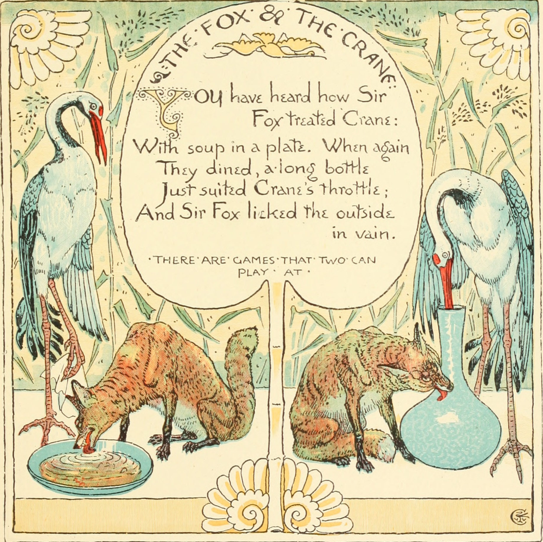 Title: The baby's own Aesop : being the fables condensed in rhyme with portable morals pictorially pointed by Walter Crane. Engraved and printed in colours by Edmund Evans Year: 1908 (1900s) Authors: Aesop Crane, Walter, 1845-1915 Evans, Edmund, 1826-1905 Subjects: Fables Publisher: New York : F. Warne Text Appearing Before Image: ' Text Appearing After Image: '